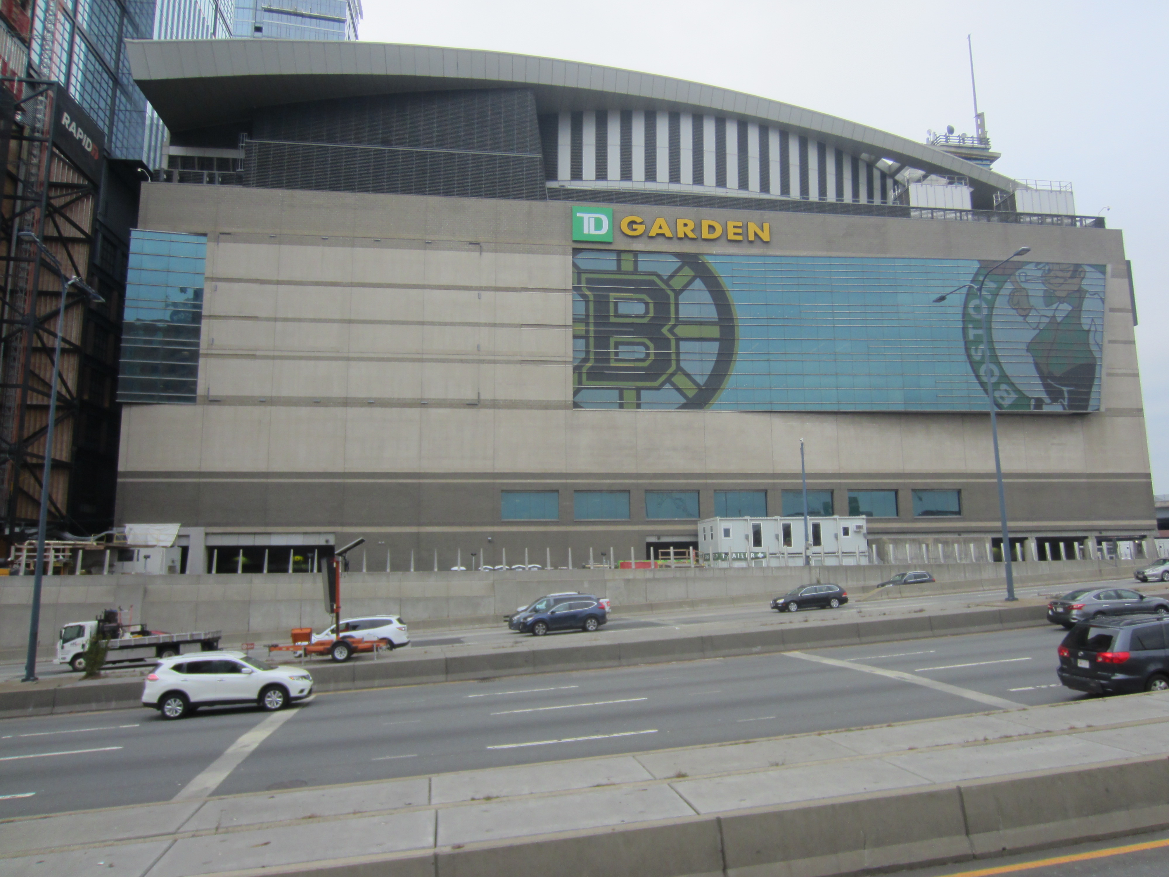 Boston (2019)